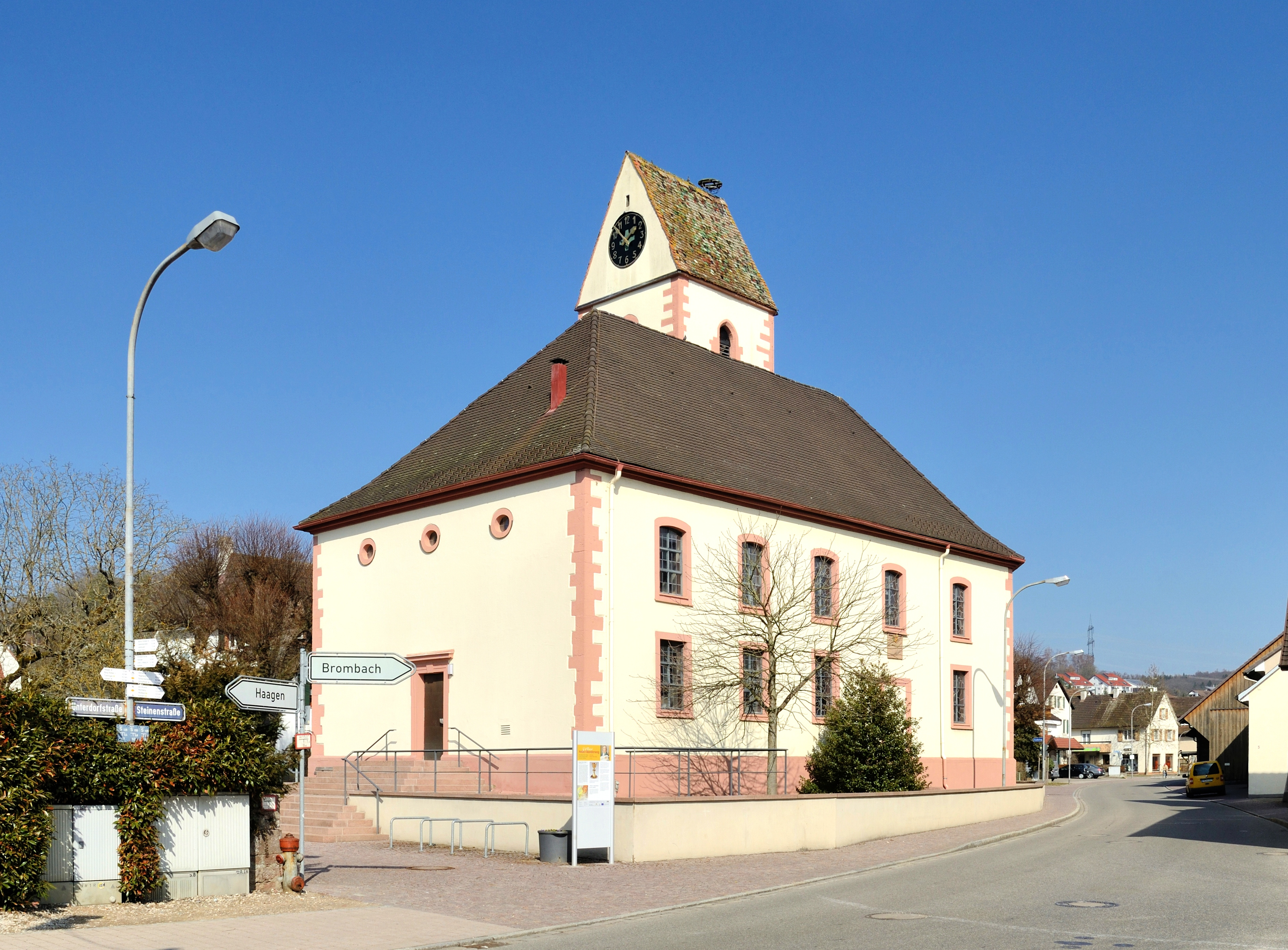 Lörrach-Hauingen: church of Saint Nicholas